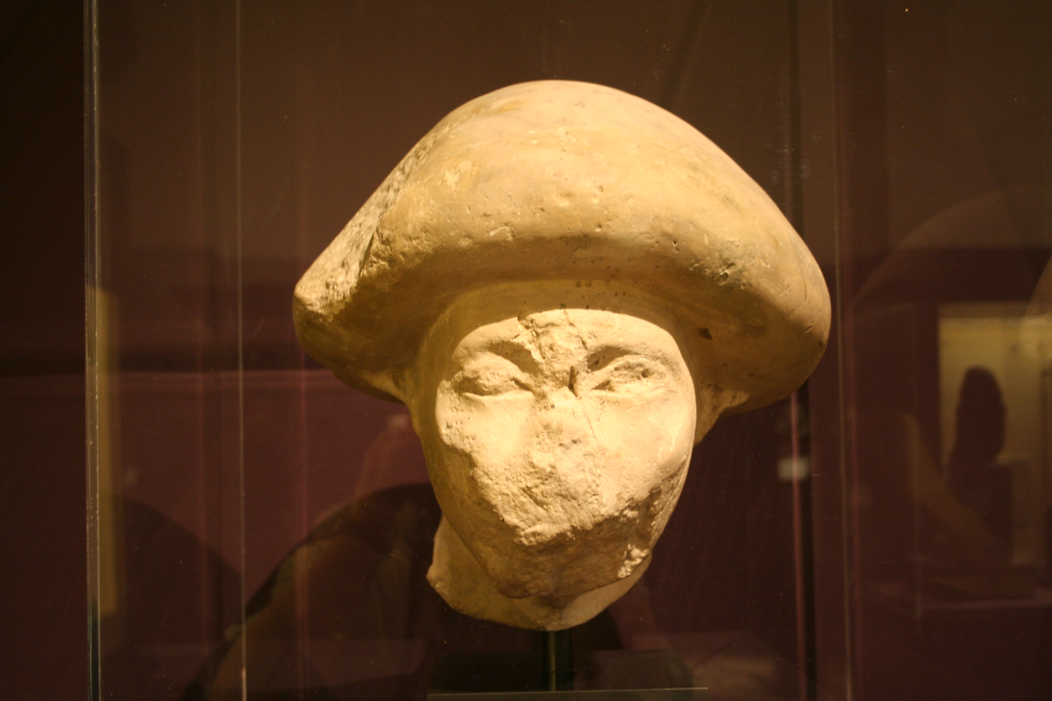 Statue head of an asiatic official with a mushroom-shaped hairstyle, from Avaris